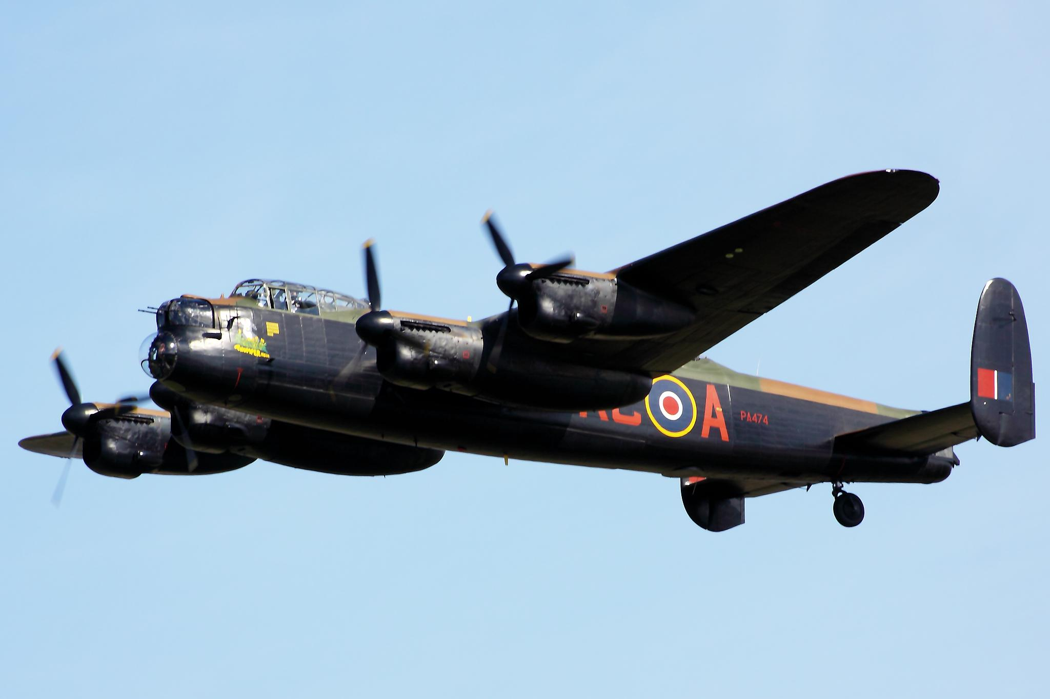 Lancaster - Abingdon 2013